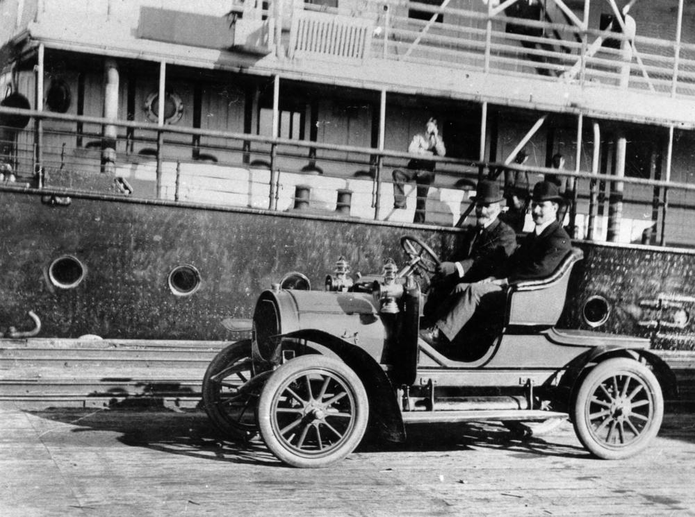 Mr. Tremearne and Captain Woodger in a Bentall motor car, ca. 1907 Mr. W. Tremearne with Captain Woodger of the ship 'Cutty Sark' driving a British made Bentall car. Behind them is a ship tied up at the docks. The car is probably a 1906 model with a two cylinder, 9 horsepower (1200 cc.) engine. Bentall, a long established agricultural engineering firm in Maldon, Essex, also produced larger four cylinder cars of 16 and 18 horsepower, but gave up car production in 1913 after producing around 100 vehicles.